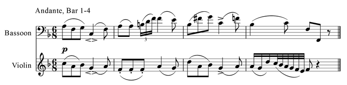 Joseph Haydn, Sinfonia Concertante, Andante, Bassoon and Violin, Bar 1-4